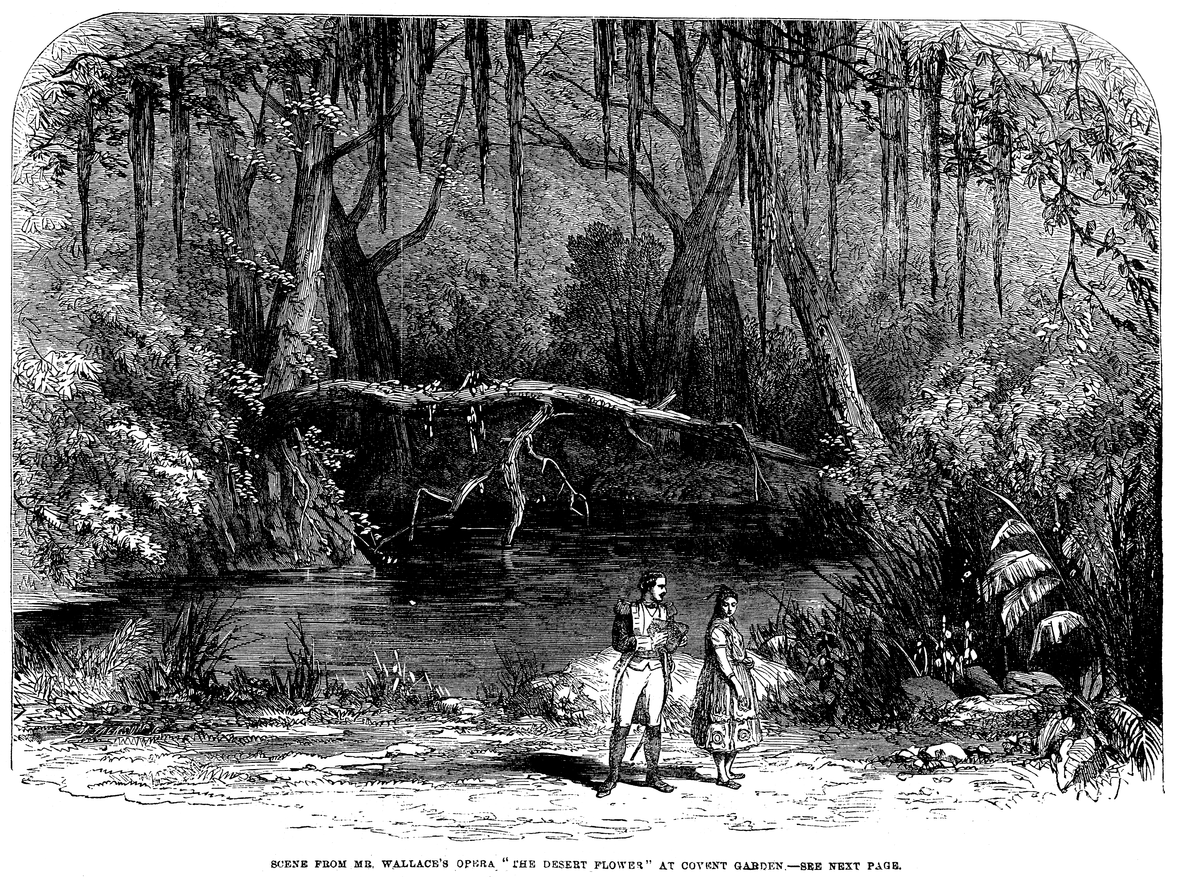 A scene from Act II, Scene 1 of William Vincent Wallace's "The Desert Flower" The original description reads: Our Engraving represents the situation - act ii. scene 1 - in Mr. Wallace's new opera, "The Desert Flower," in which Captain Maurice (Mr. Harrison) first addresses Oanita (Miss Louisa Pyne) as a lover. He is singing the beautiful ballad "Though Born in Woods, rude Nature's Child," [sic] while she, listening with surprise and emotion, is saying to herself, "None of my own tribe ever spoke to me thus!" The forest scenery is one of the happiest efforts of Mr. Grieve's pencil. Mr. Grieve is probably what is called the scene-painter (though they actually also handled stage design). - Adam Cuerden 20:21, 29 September 2007 (UTC)